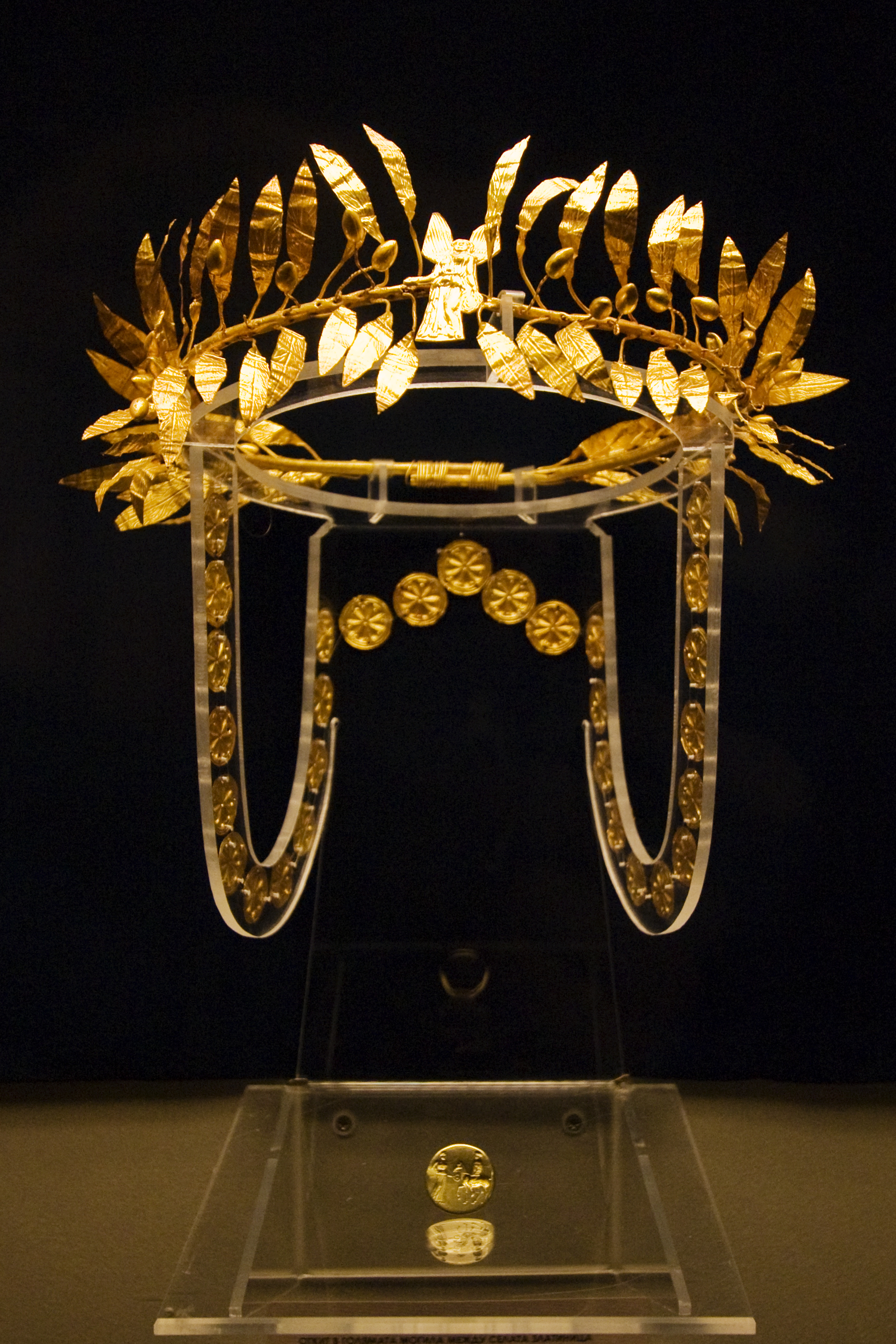 A golden wreath and ring from the burial of an Odrysian Aristocrat at the Golyamata Mogila tumulus, situated between the villages of Zlatinitsa and Malomirovo in the Yambol region. Dated to the mid 4th century BC.